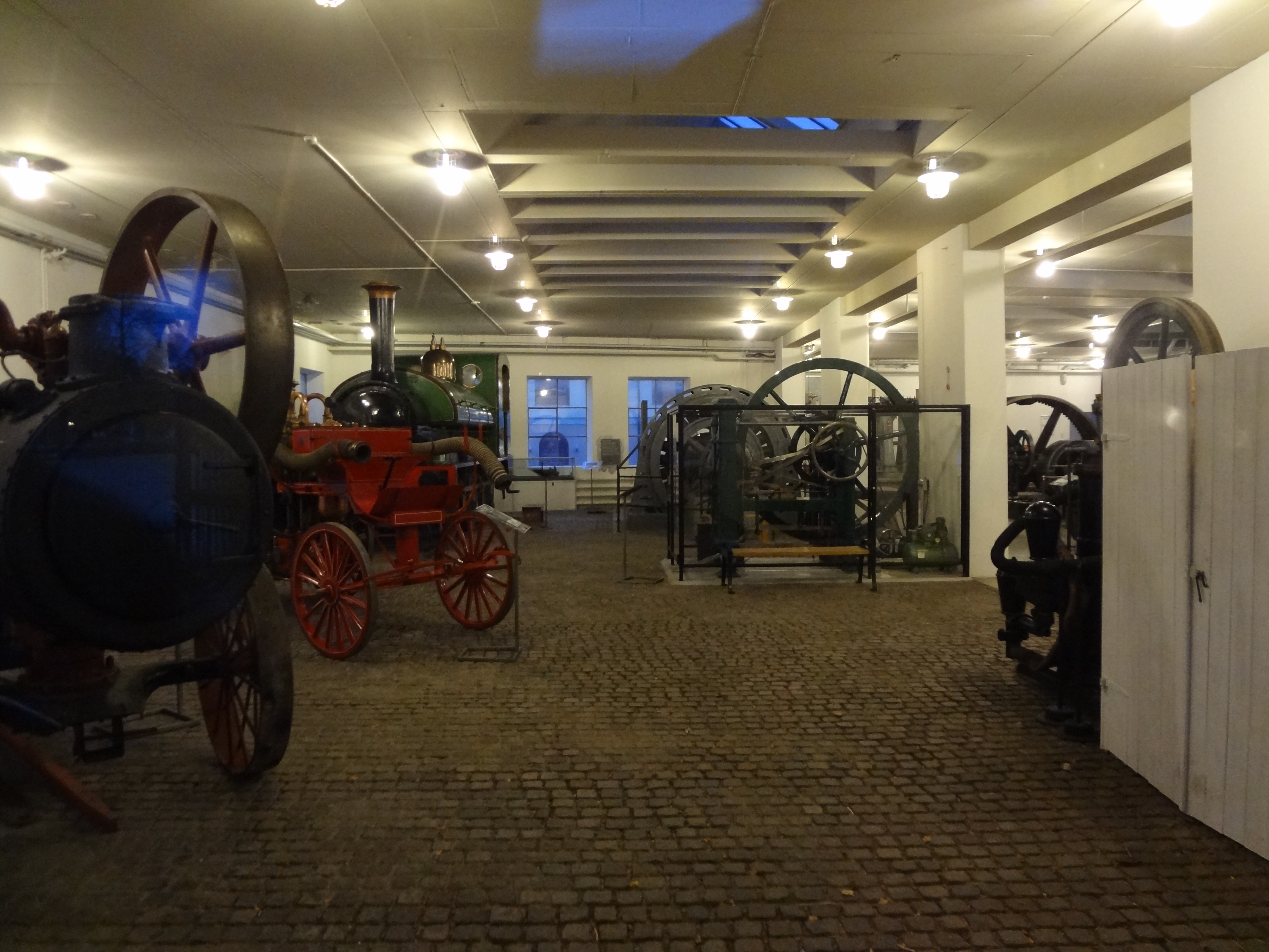 Ånghallen (steamhall), Eskilstuna stadsmuseum